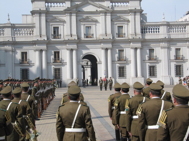 Ceremony in Palacio de La Moneda, Chile.